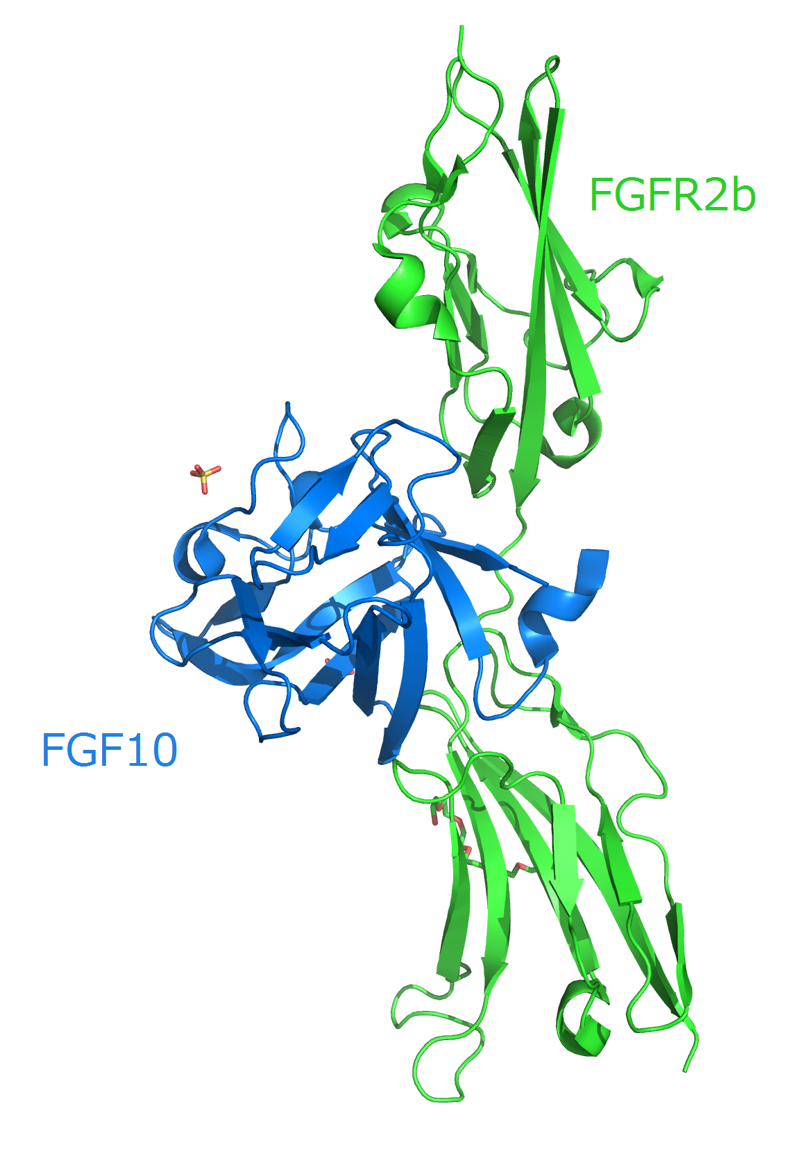 Cartoon representation of the extracellular structure of FGF10-FGFR2b complex. This file was created from pdb file id = 1NUN